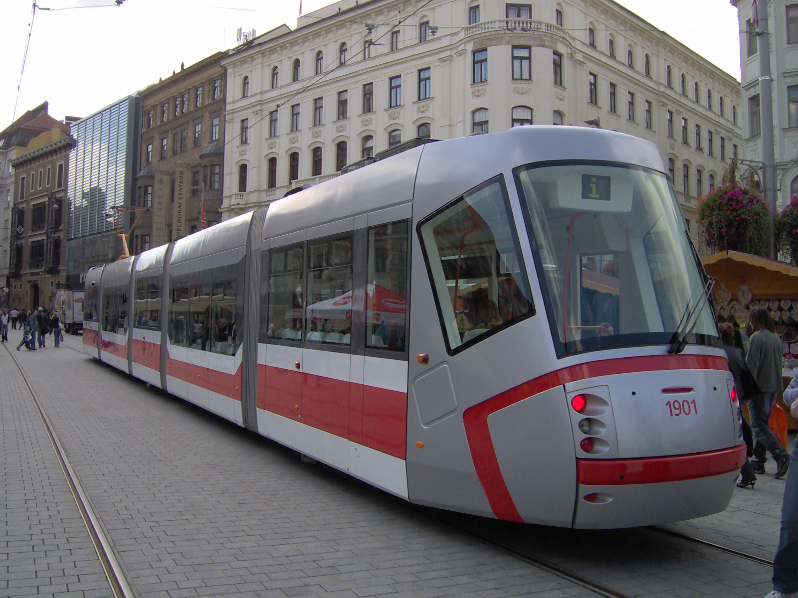 Škoda 13 T tram in Brno